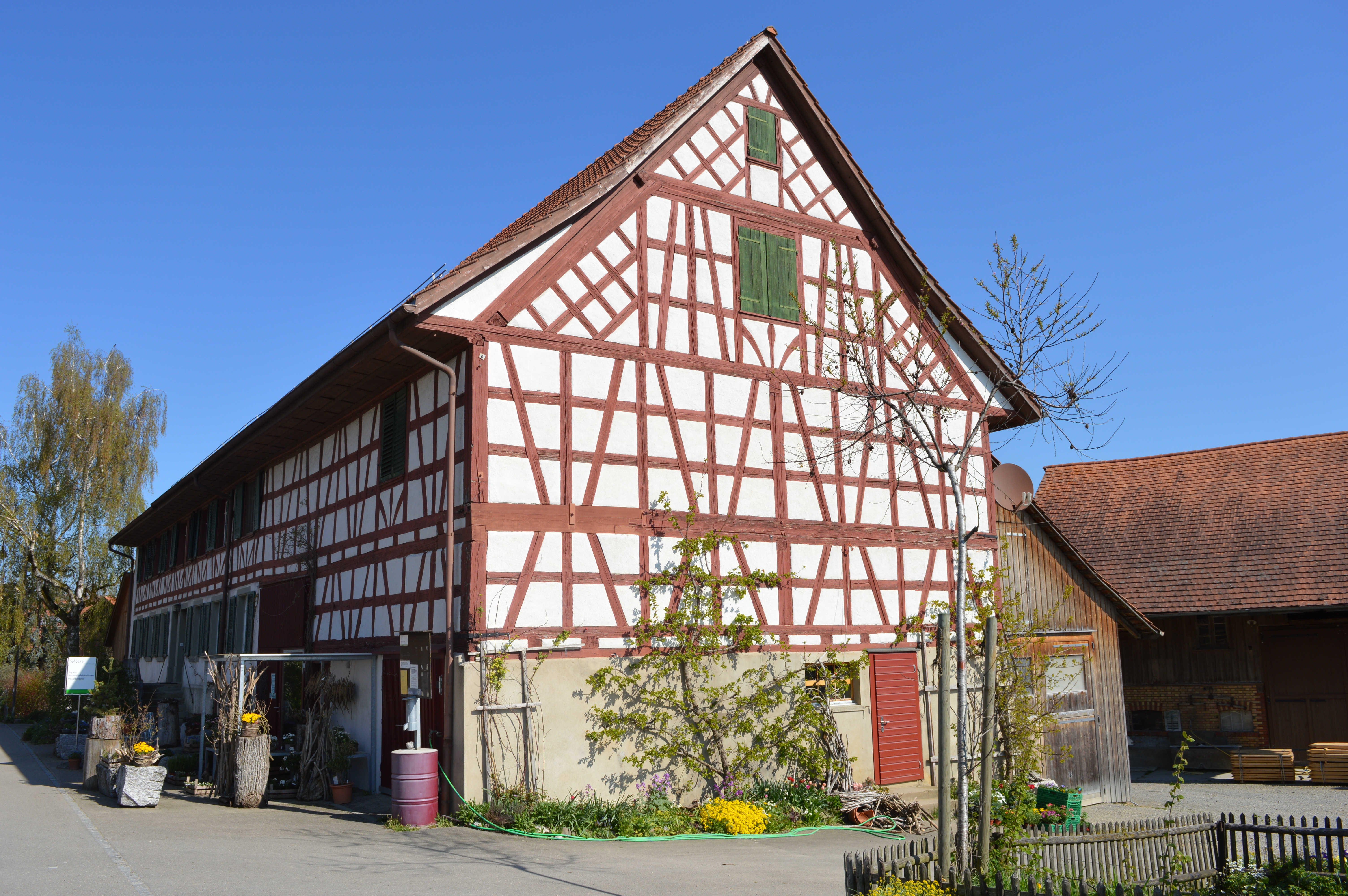 Oberneunforn, municipality of Neunforn, canton of Thurgovia, Switzerland